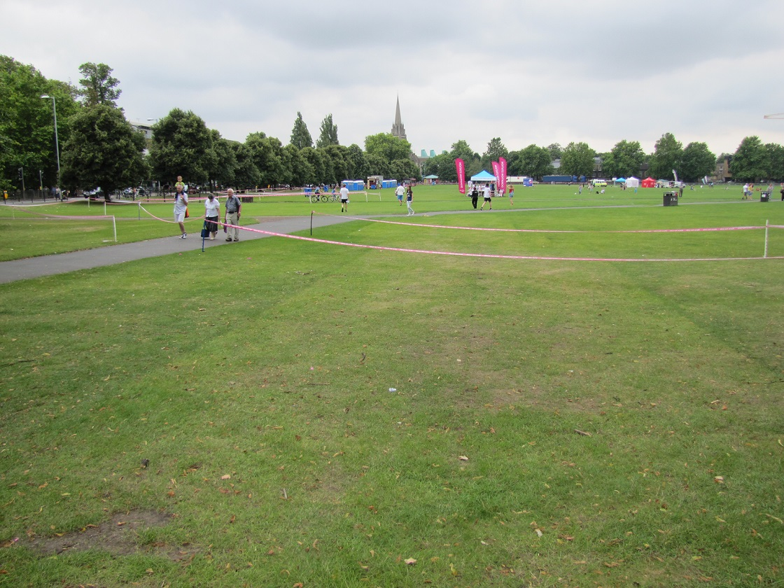 Parker's Piece, Cambridge, UK